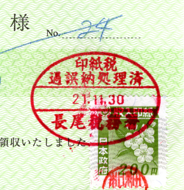 The part of the taxable document which received confirmation at a tax office by a clerical error. (This stamp postmarks it, and it's impossible to use because confirmation in a tax office is received.)